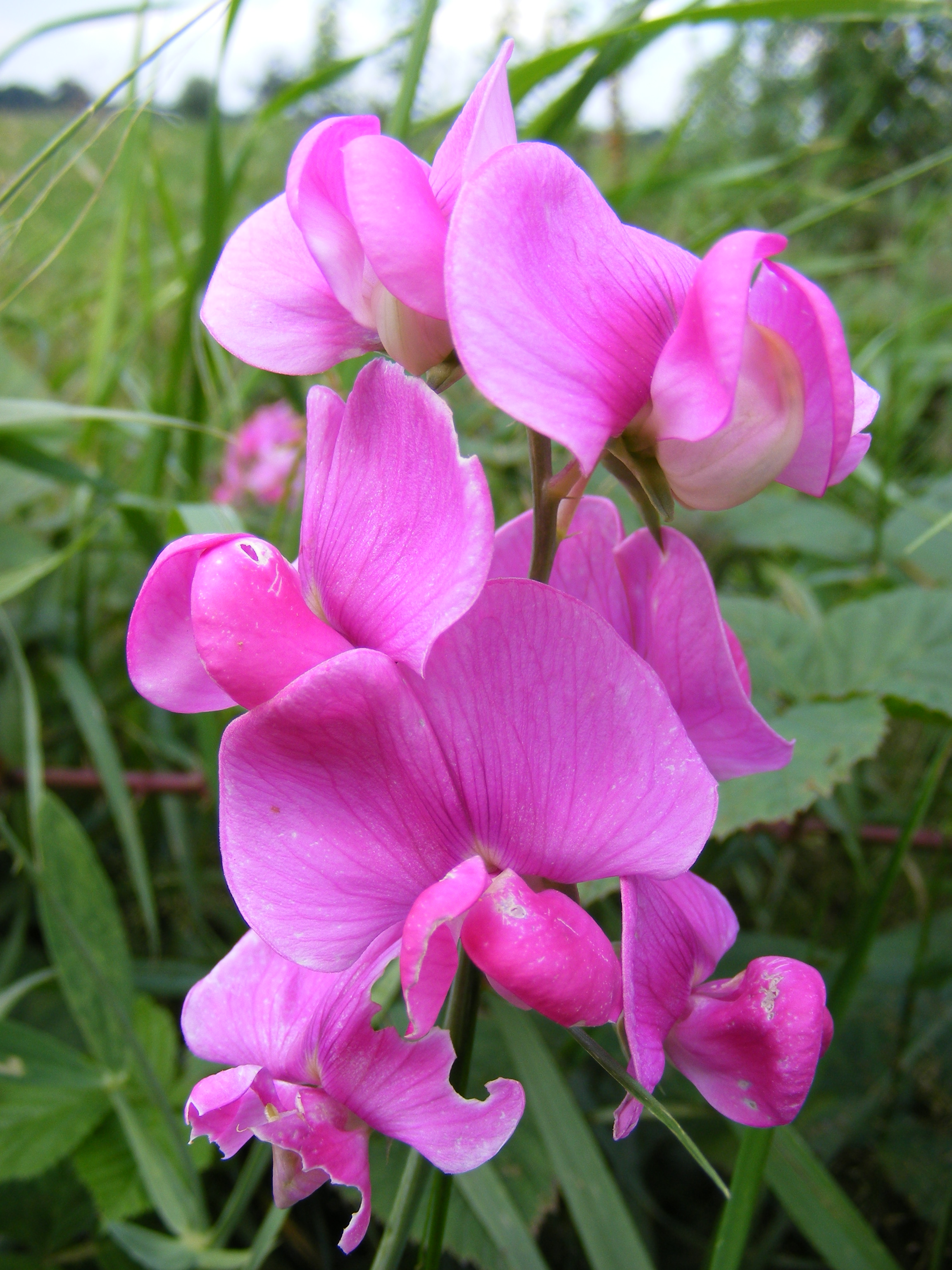 This photo shows Lathyrus latifolius